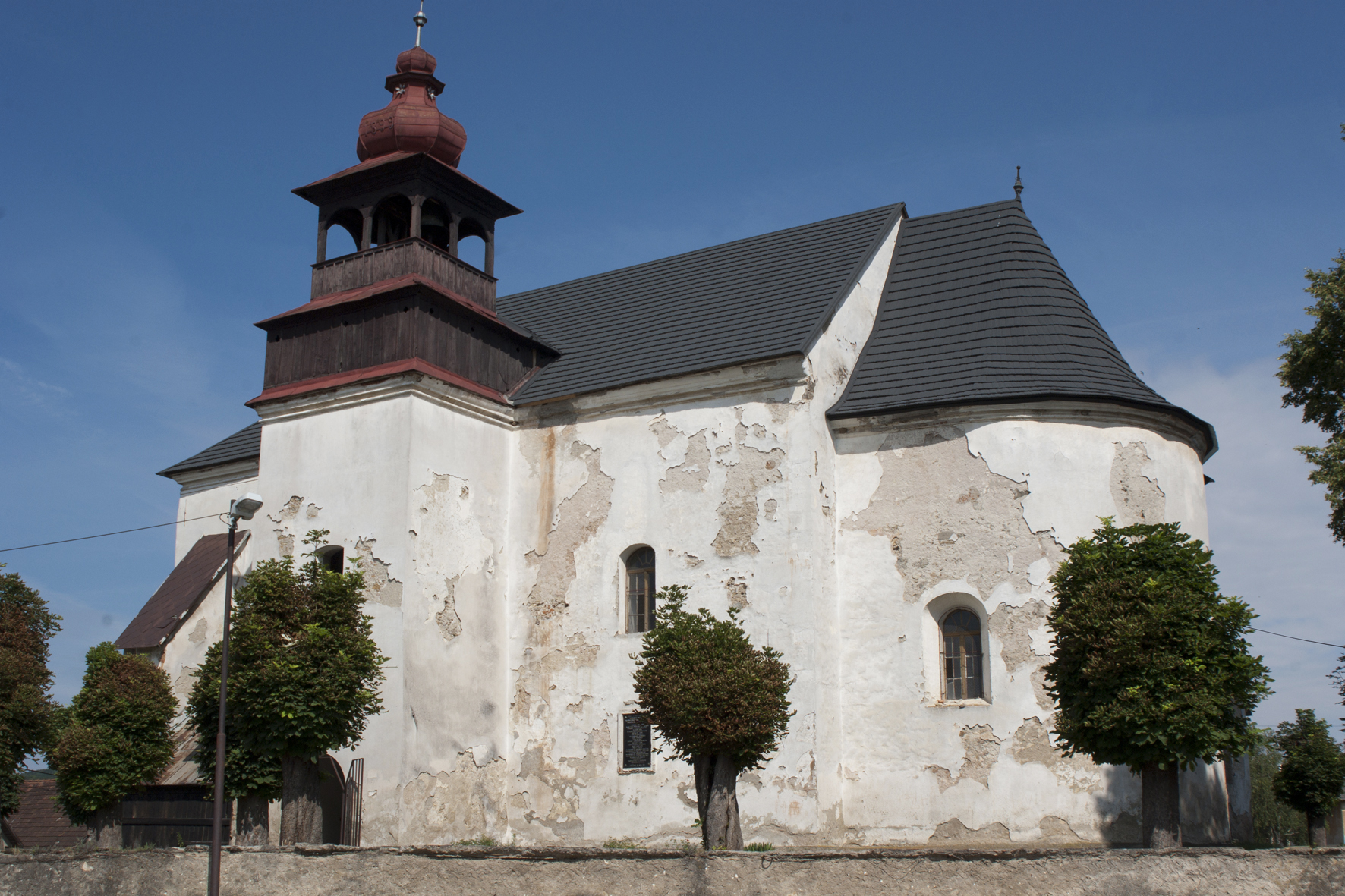 Lutheran church in Kameňany, Slovakia. The church was founded in 13th century and is rich on gothic frescos in its interior.